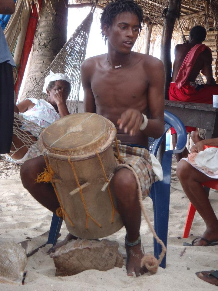 A garifuna drummer in Cayos Cochinos